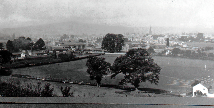 Monmouth in c. 1900 from South East on stuanton rd. showing the gas works in the foreground. Monmouth Museum identity number: M1273